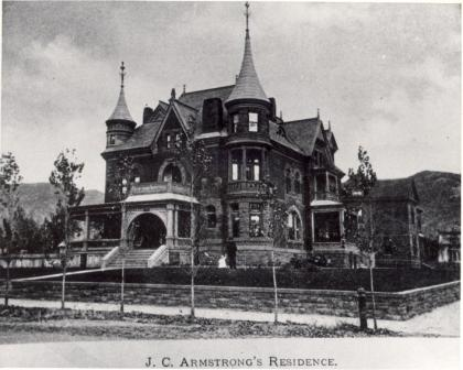 Historically significant building taken sometime between 1890 and 1897